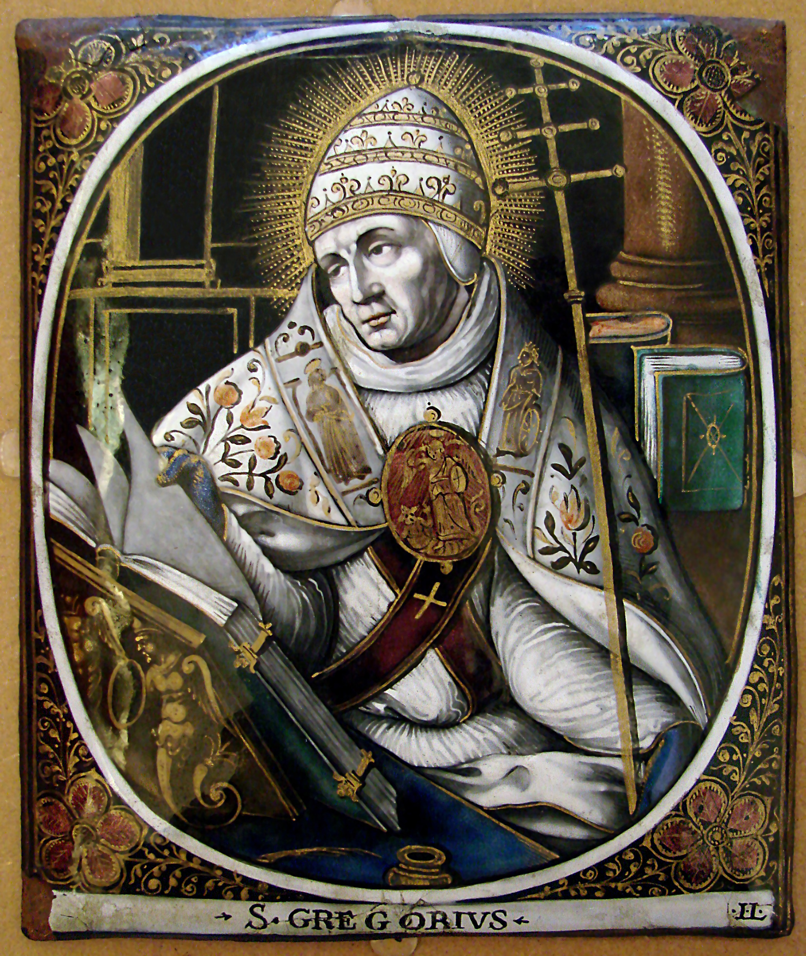 Enamel on copper by Jacques I Laudin (1627-1695),Limoges: Saint Gregorius.Musée de Châlons en Champagne, France. Joconde database: entry 03070000435